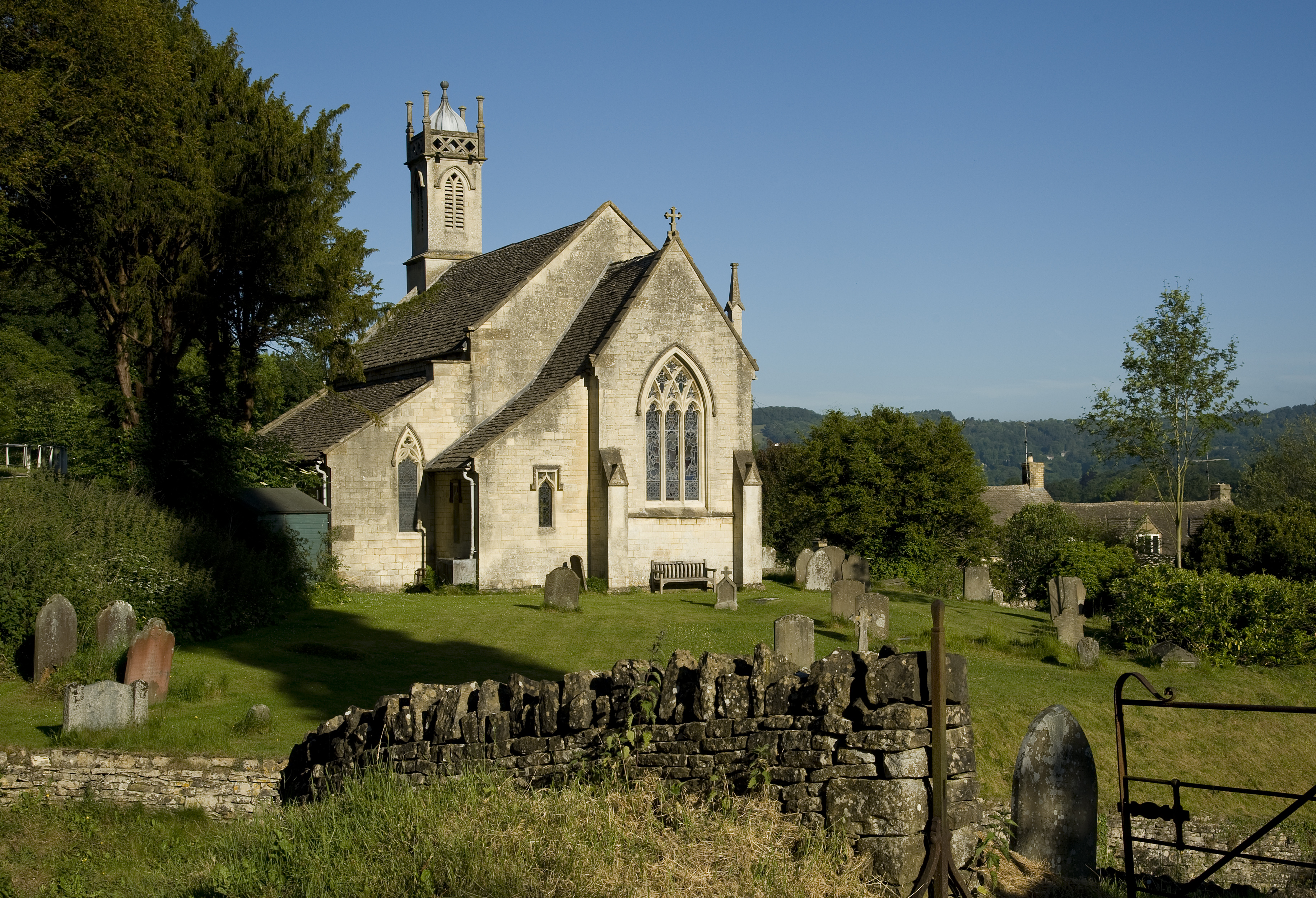 Saint John the Apostle Church in Sheepscombe, England (Cotswolds). The church was built in 1820. The first record of the village of Sheepscombe dates from 1260.